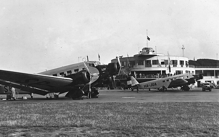 In the background: Malert Junkers Ju 52/3m (HA-JUA) at Budaörs Airport. In the foreground: The sole Junkers Ju-52 operated by LOT Polish Airlines (SP-AKX).